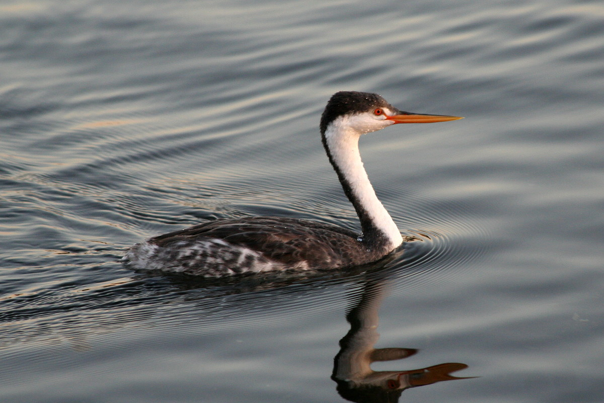 Clark's Grebe (Aechmophorus clarkii) taken at Lake Merritt in Oakland, California.